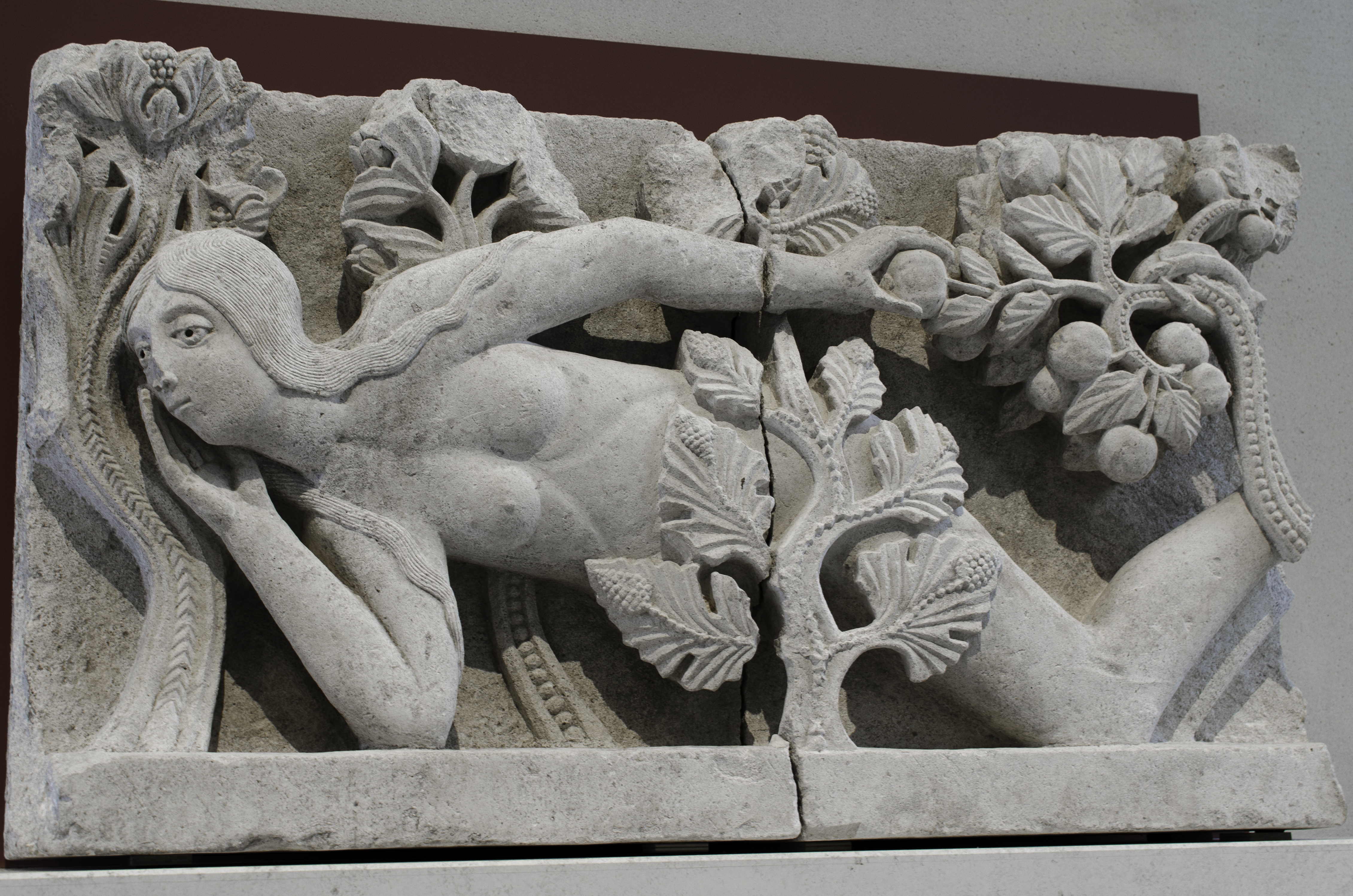 "Eve's Temptation" after restoration.